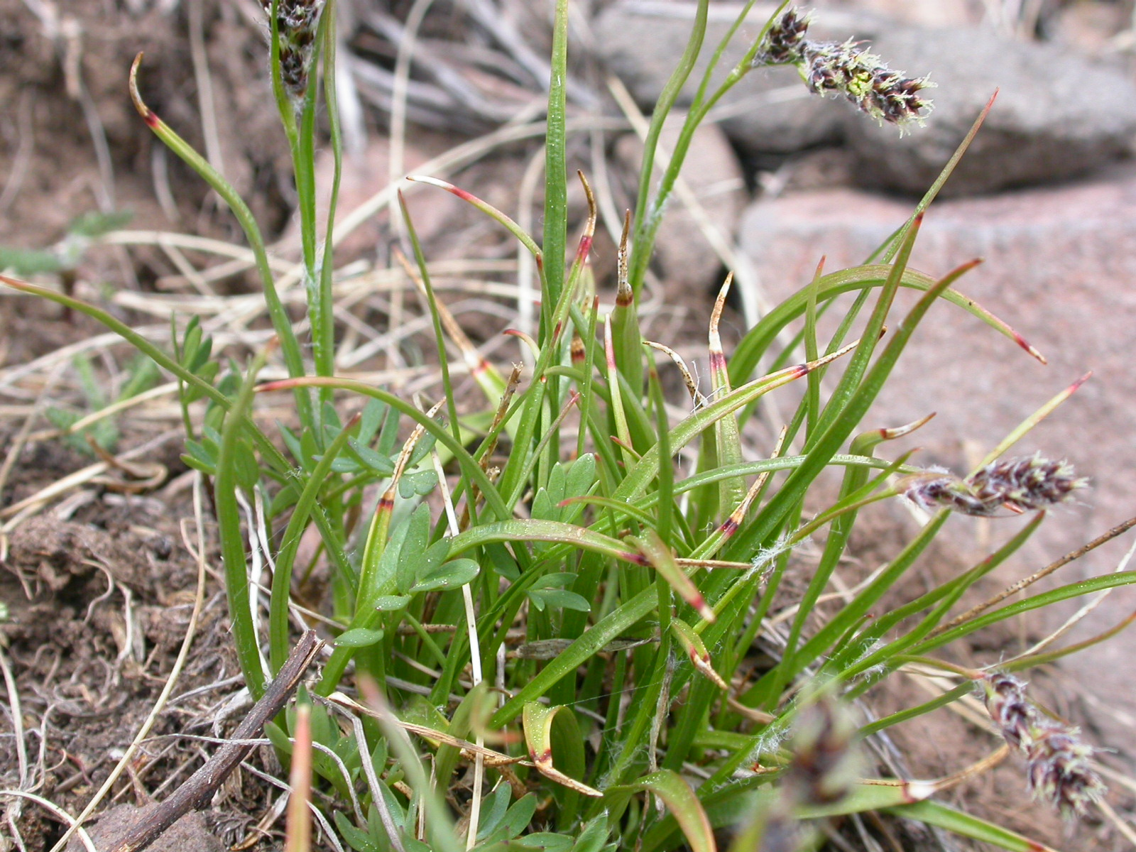 Luzula spicata